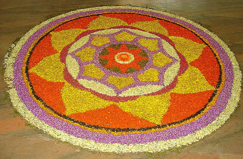 Pookalam during Onam days